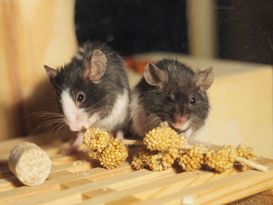 Adult female pet mice eating. This photograph was taken with a Olympus E-PL1.